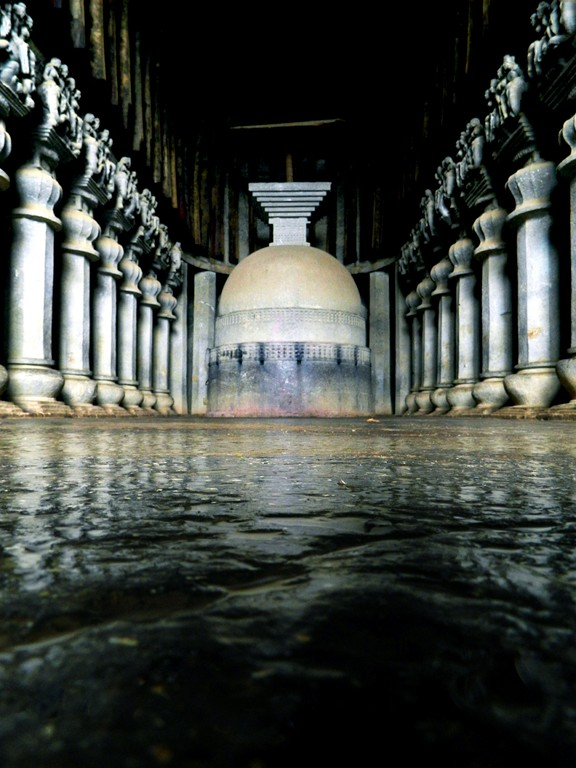 Caves, stupa and inscription